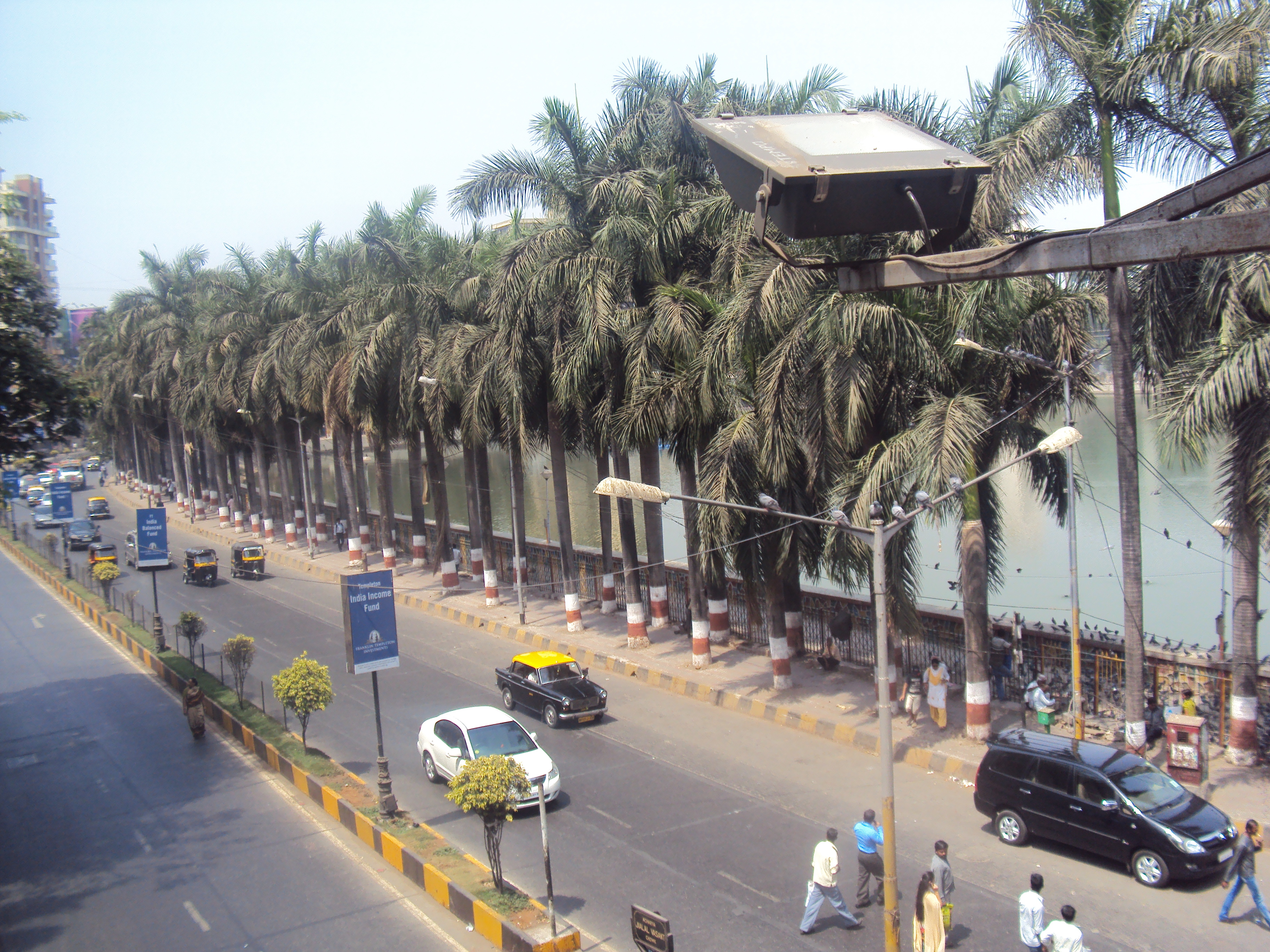 Bandra talao, 2012.